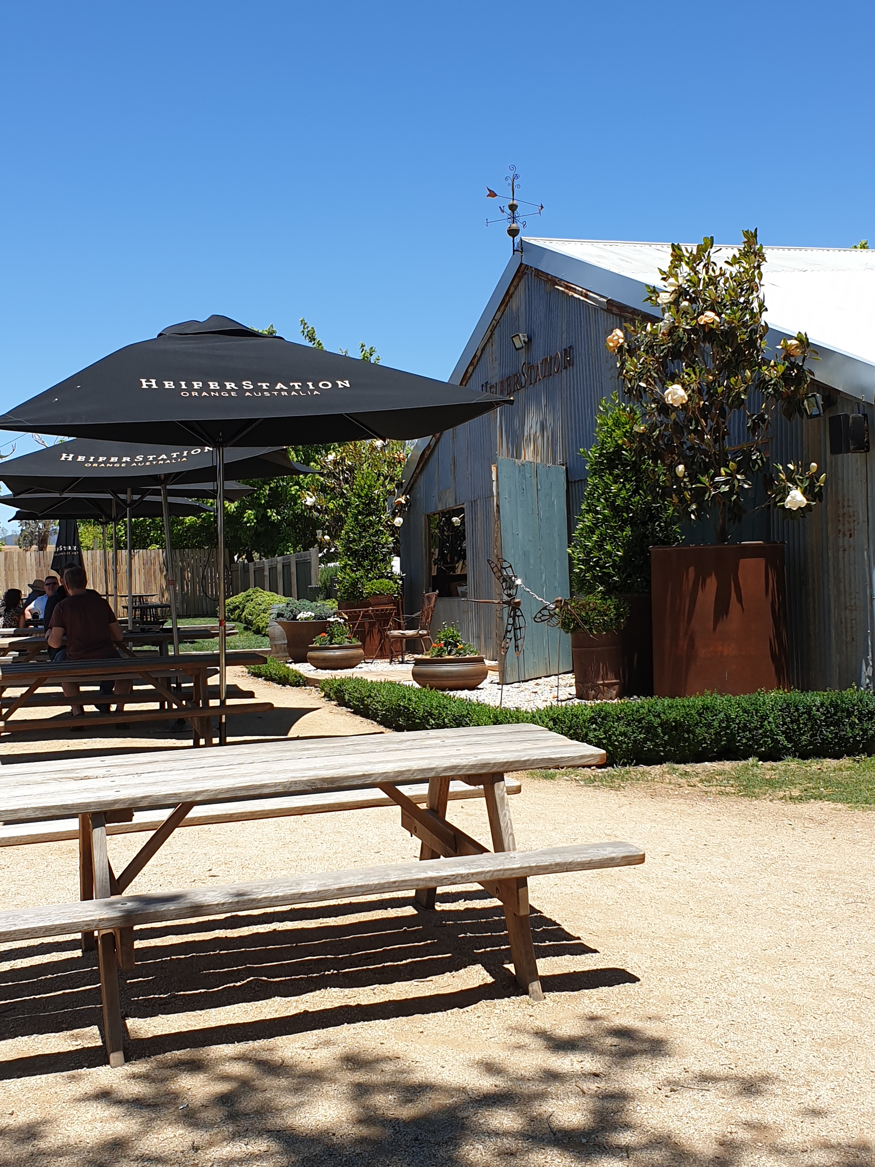 Heifer Station winery's cellar door, Orange, New South Wales, Australia.